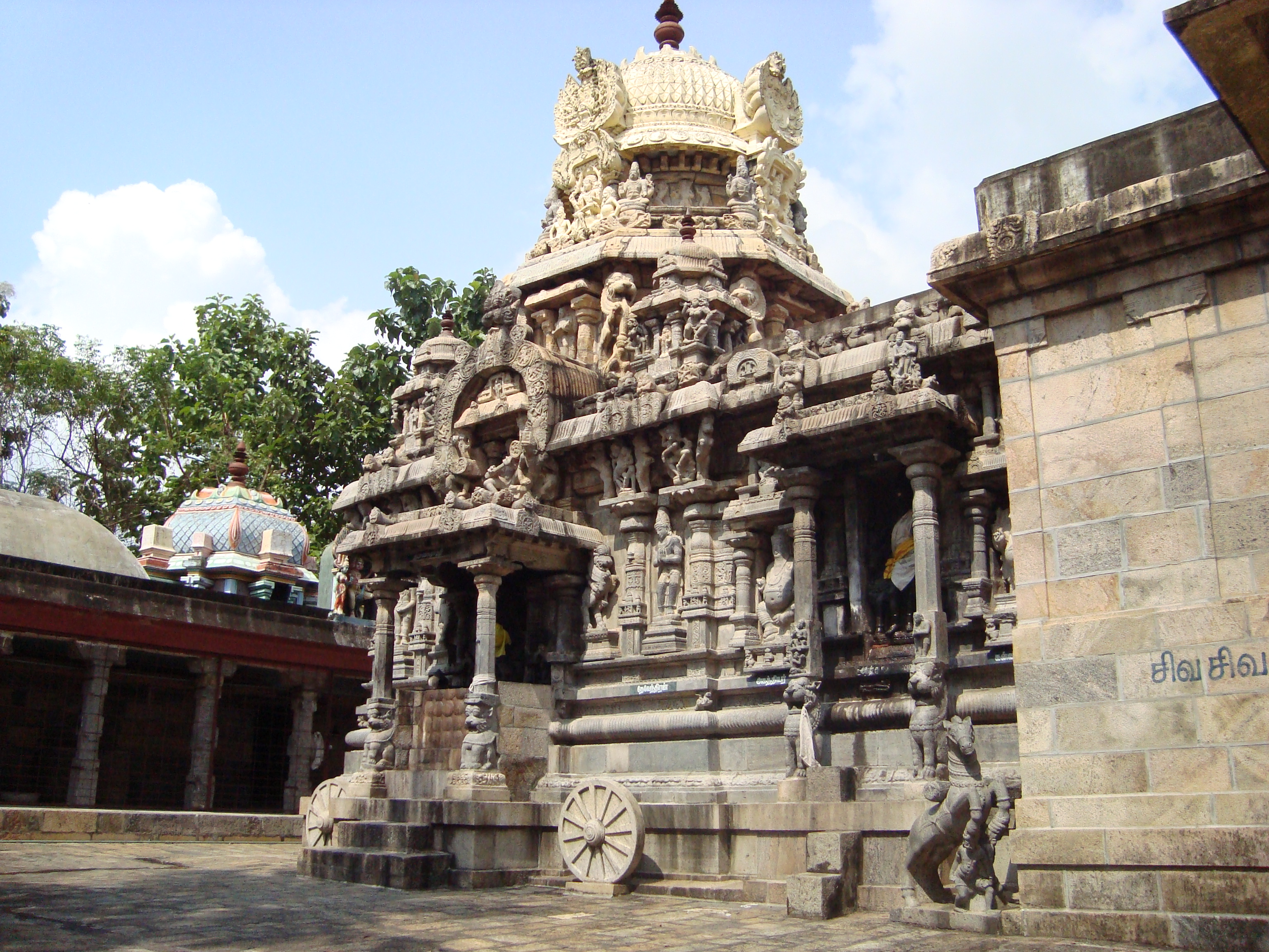 This is kadambur sivan temple